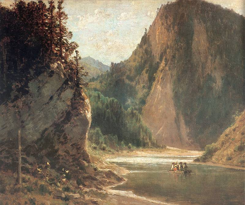 Reproduction of picture by Józef Szermentowski - "Pieniny"